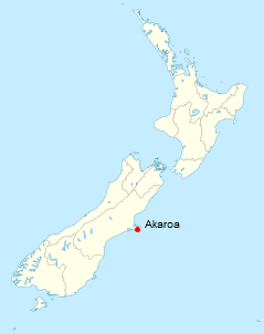 Location of Akaroa in New Zealand.